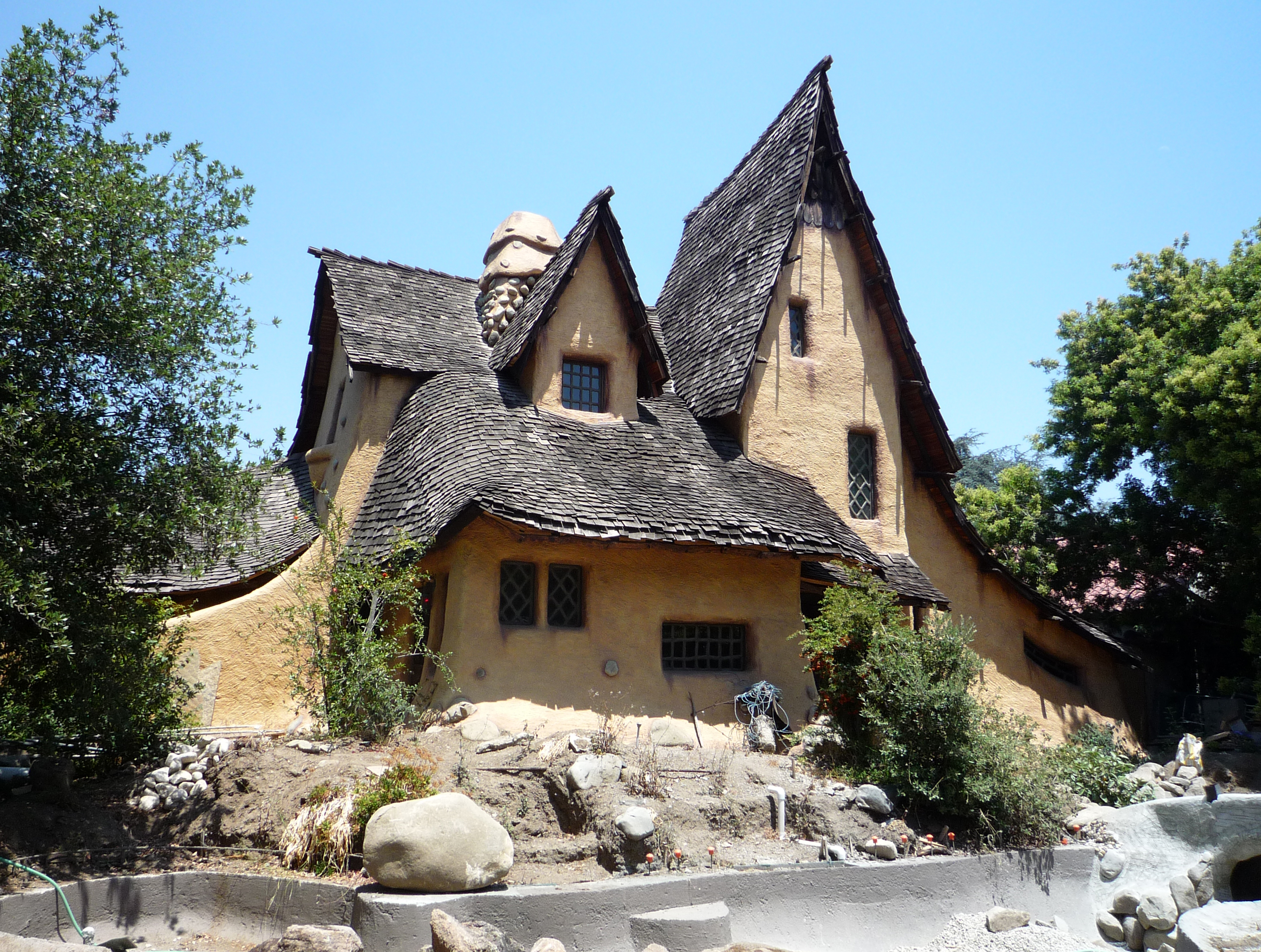 Spadena House, also known as "The Witch's House". Built by Harry Oliver in 1921, it is known as a prime example of Storybook architecture, Beverly Hills, California, USA.